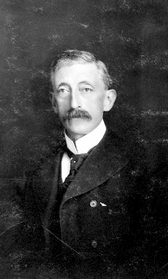 Henry Croft in 1885